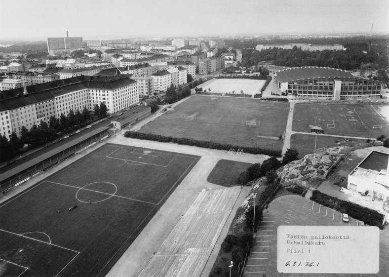 Töölön pallokenttä football ground, Helsinki, Finland.